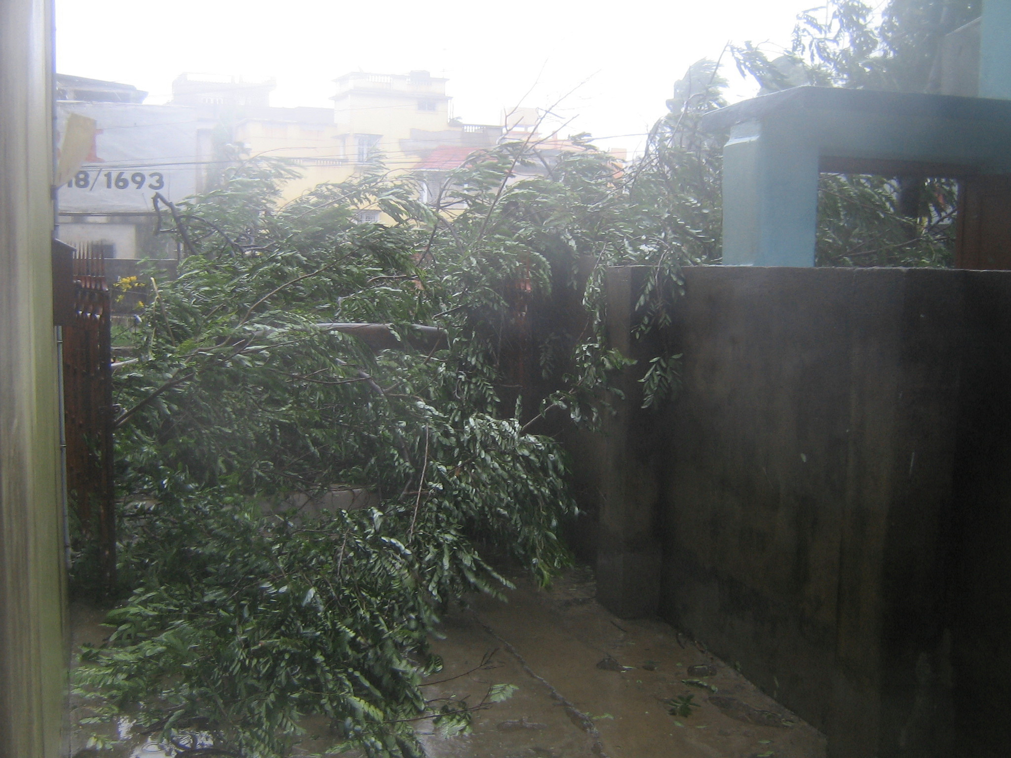 The Aila, A depression that developed over the Bay Of Bengal In May, 2009, broke many trees.